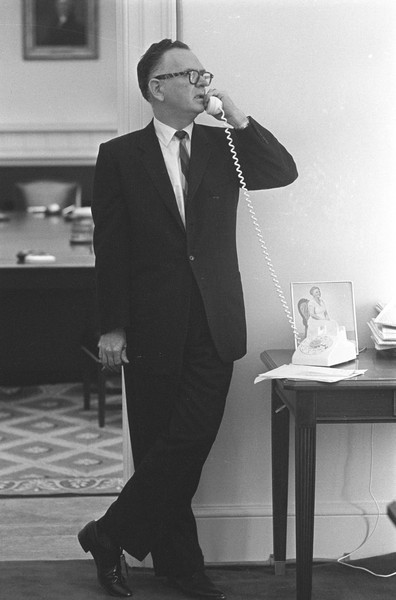 Walter Jenkins talking on the telephone